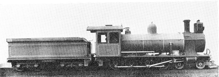 Ex Cape Government Railways Class 7 765 (4-8-0) South African Railways Class 7C 1065 (4-8-0) Builder's Number: Neilson, Reid 6085